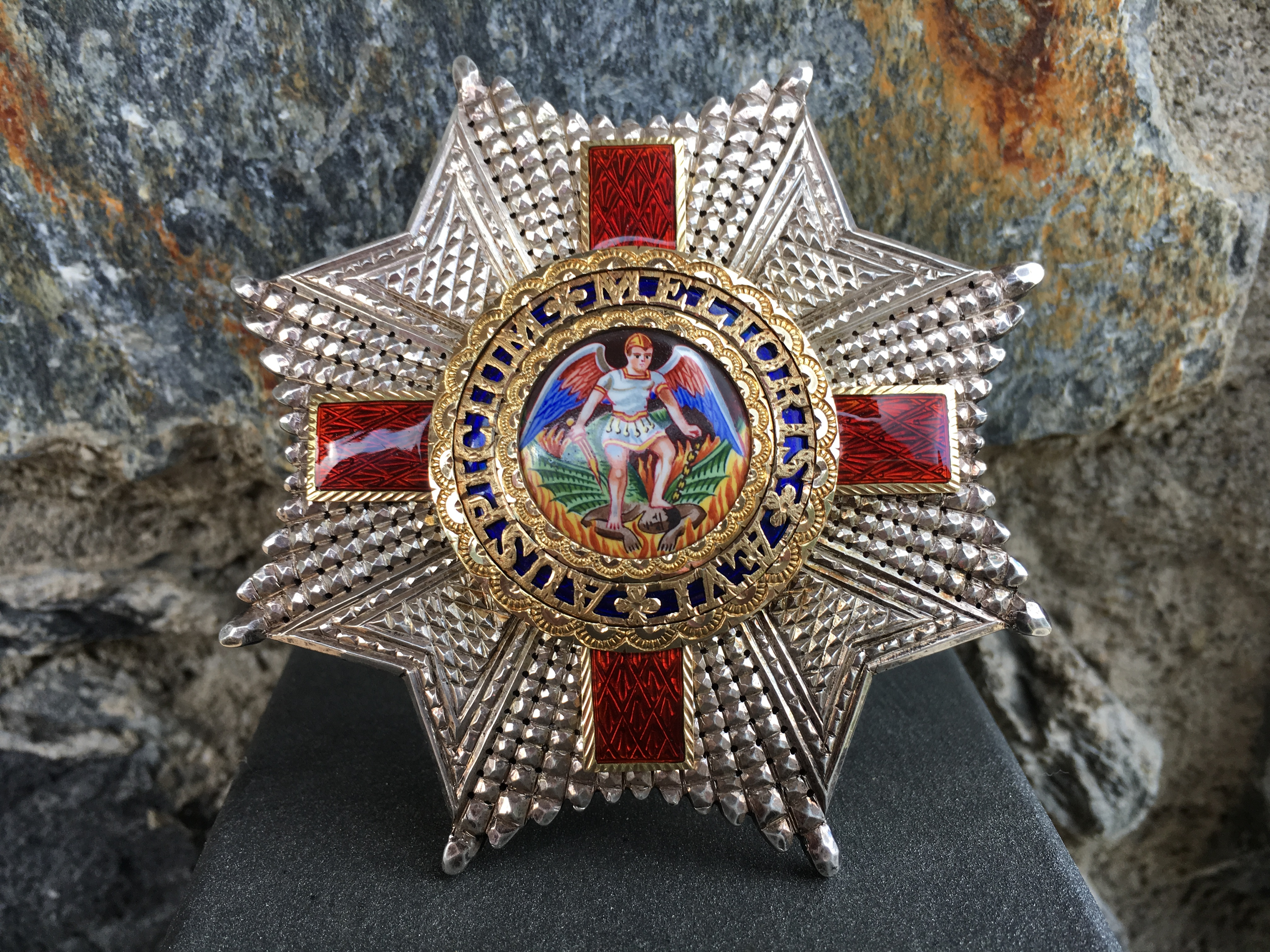 Knight Commander star of the Order of St Michael and St George, United Kingdom. Private collection.